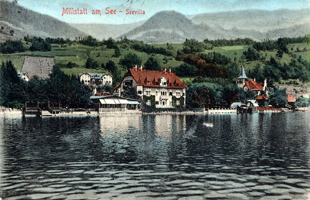 Postcard. Seevilla in Millstatt district Spittal an der Drau in Carinthia / Austria / European Union.